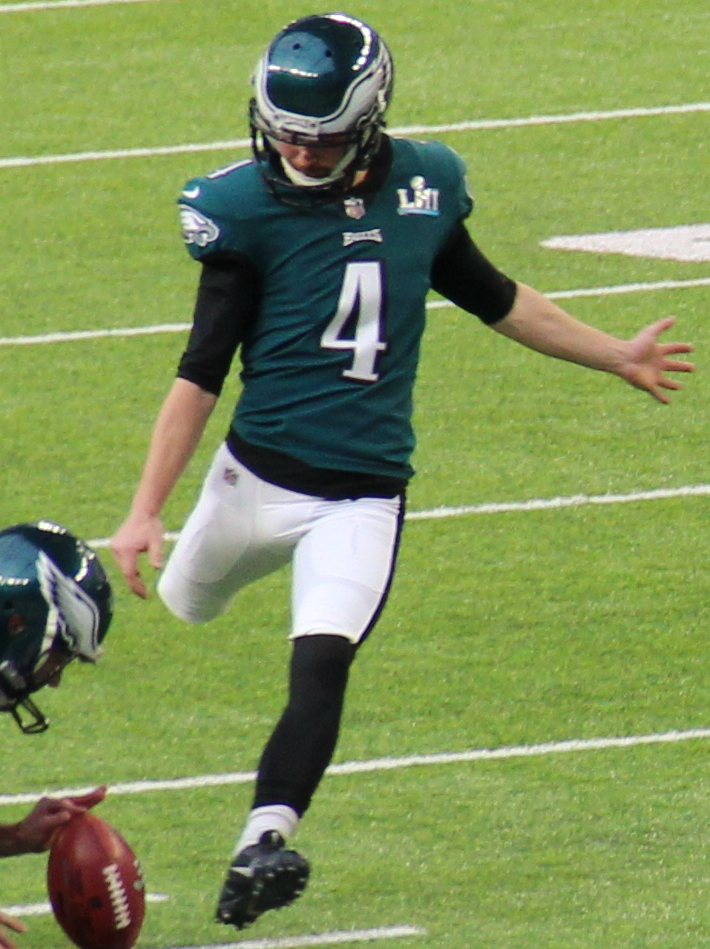 Practicing field goals before Super Bowl LII.